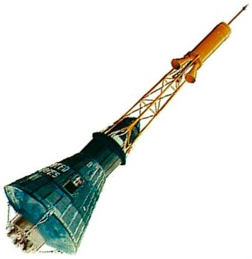 Artists concept of Mercury capsule with launch escape system.